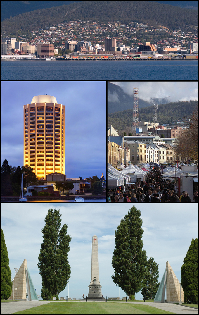 Montage of Hobart, Tasmania Hobart CBD - Cropped version of Image from File:Greater Hobart Panorama.jpg under the Creative Commons Attribution-Share Alike 3.0 Unported license. Wrest Point Hotel Casino - Image from File:Wrest Point Casino.jpg under the GNU Free Documentation License, Version 1.2 licence Salamanca Place - Image from File:Salamanca Market May.JPG under the Creative Commons Attribution 3.0 License. Hobart Cenotaph - Image from File:Hobart Cenotaph wide shot.png in the public domain